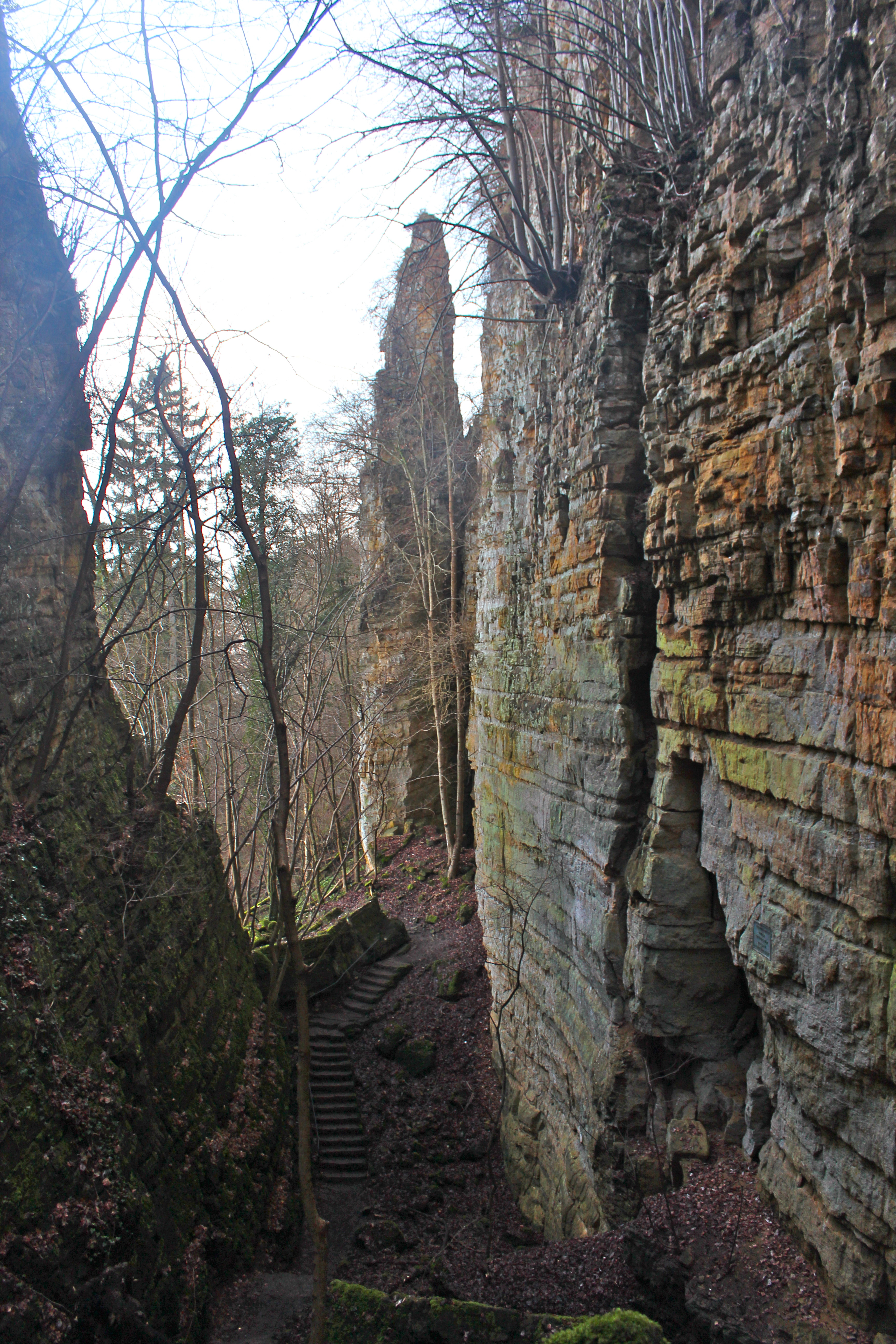 Gorge du Loup / Wollefsschlucht near Echternach, Luxembourg